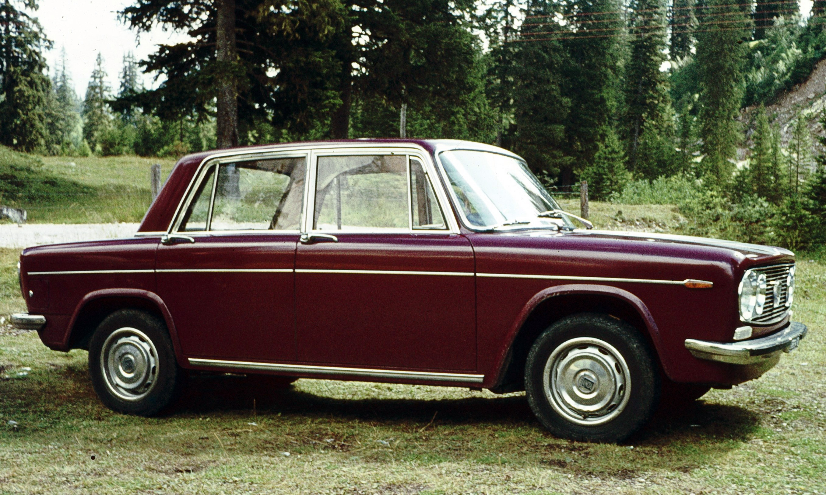 Lancia Fulvia Seden in Dolomite region, a short distance north of Cortina